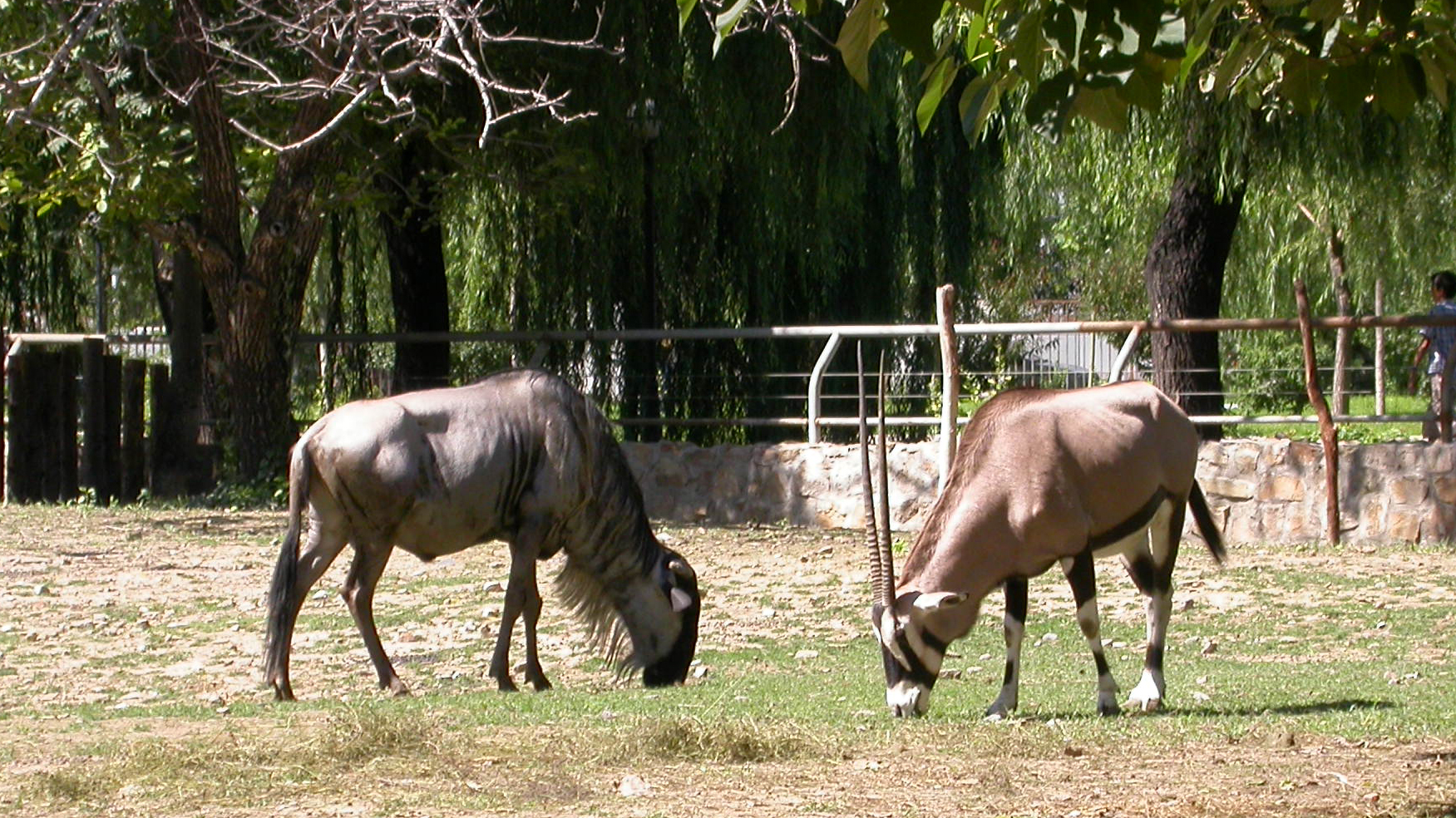 Blue Wildebeest and Gemsbock in the African animals field, Beijing Zoo